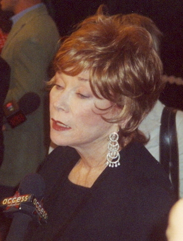 Photo of Shirley MacLaine at the Toronto Film Festival.